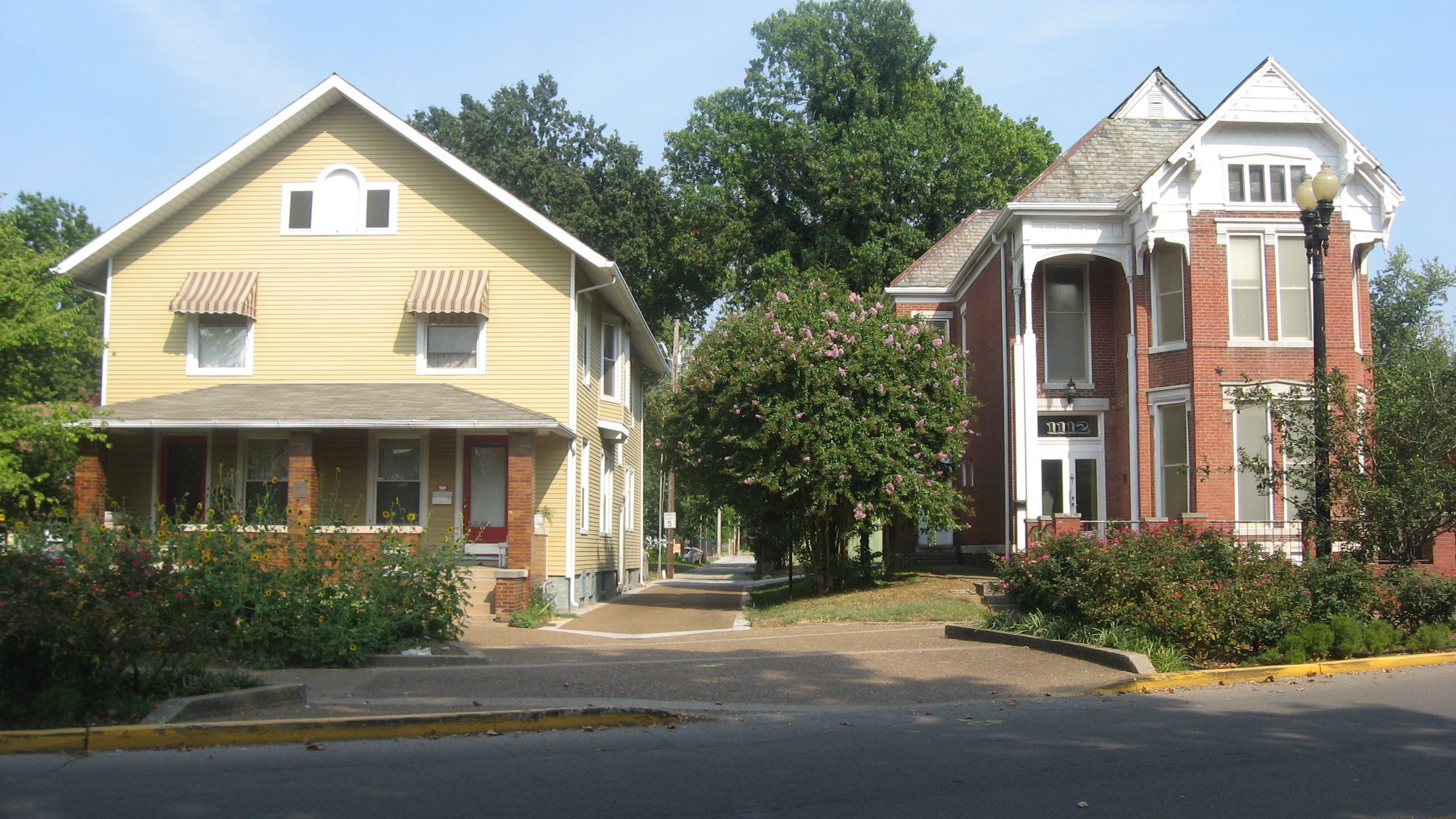 Houses on the eastern side of the 1100 block of S. Parrett Street in Evansville, Indiana, United States. Built in 1910 (left) and 1885 (right), these houses are part of the Washington Avenue Historic District, a historic district that is listed on the National Register of Historic Places.